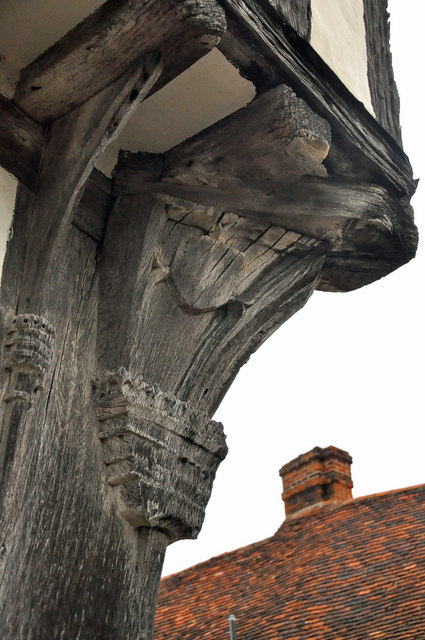 Carved supporting beam - The Old Wool Hall, Lavenham